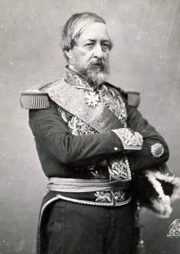 General José Hilario López by Félix Nadar. ca 1857.